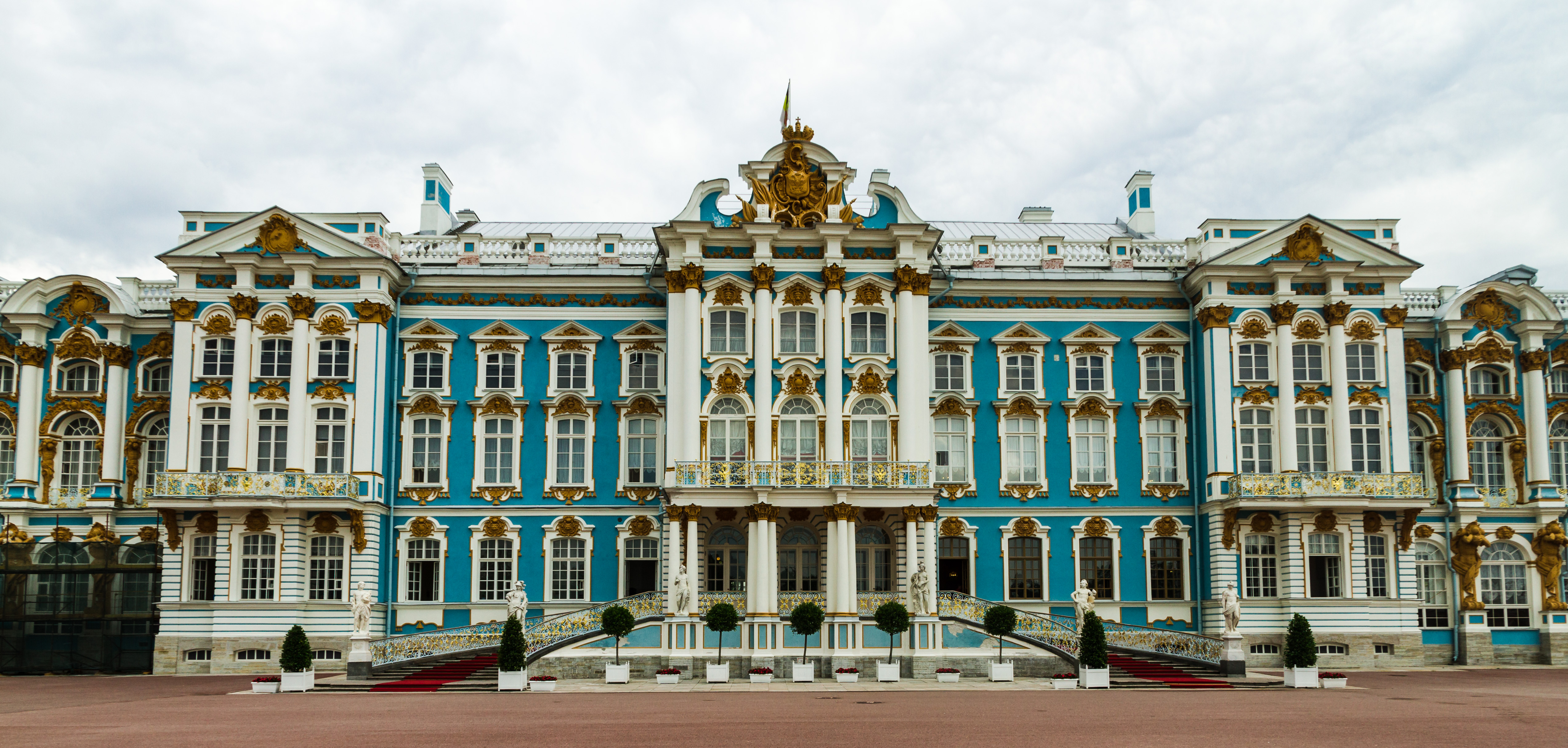 Catherine Palace